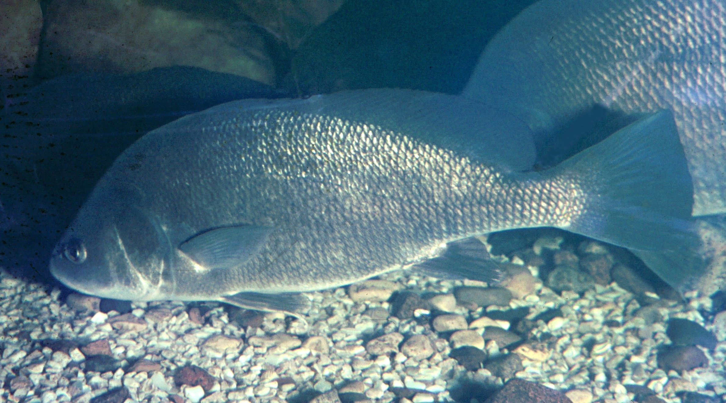 Aplodinotus grunniens at Gavins Point National Fish Hatchery, South Dakota, 24.02.1966